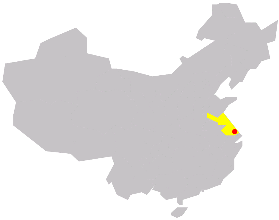 position of Nantong in China